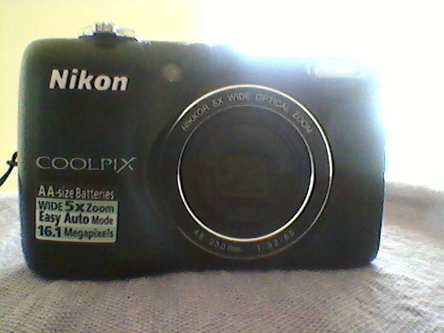 The Nikon Coolpix L26 black (16.1 megapixels, 5xzoom, 3.0 LCD, Easy Auto Mode, AA-size Batteries)